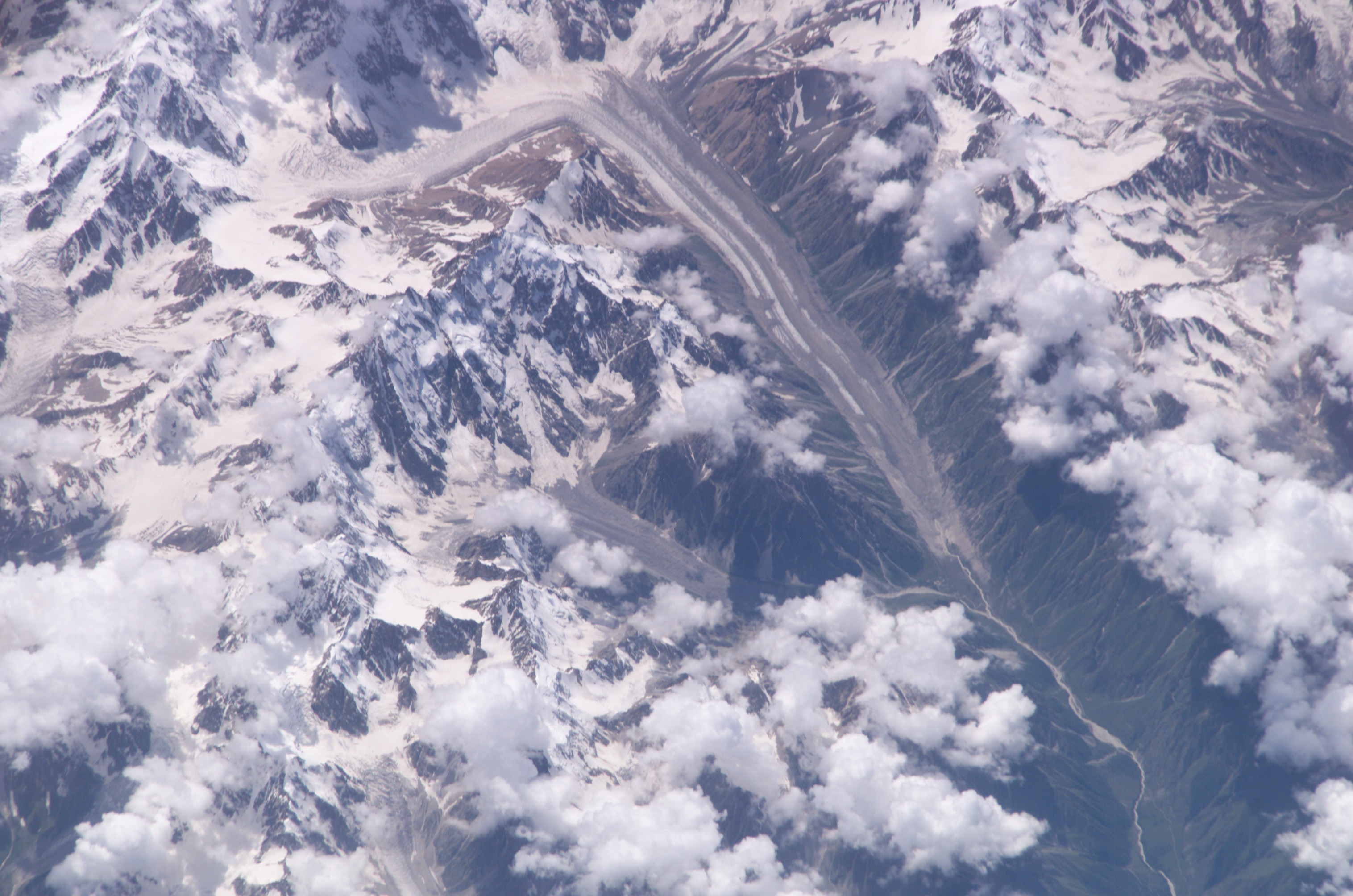 Georgia's highest mountain, Shkhara.